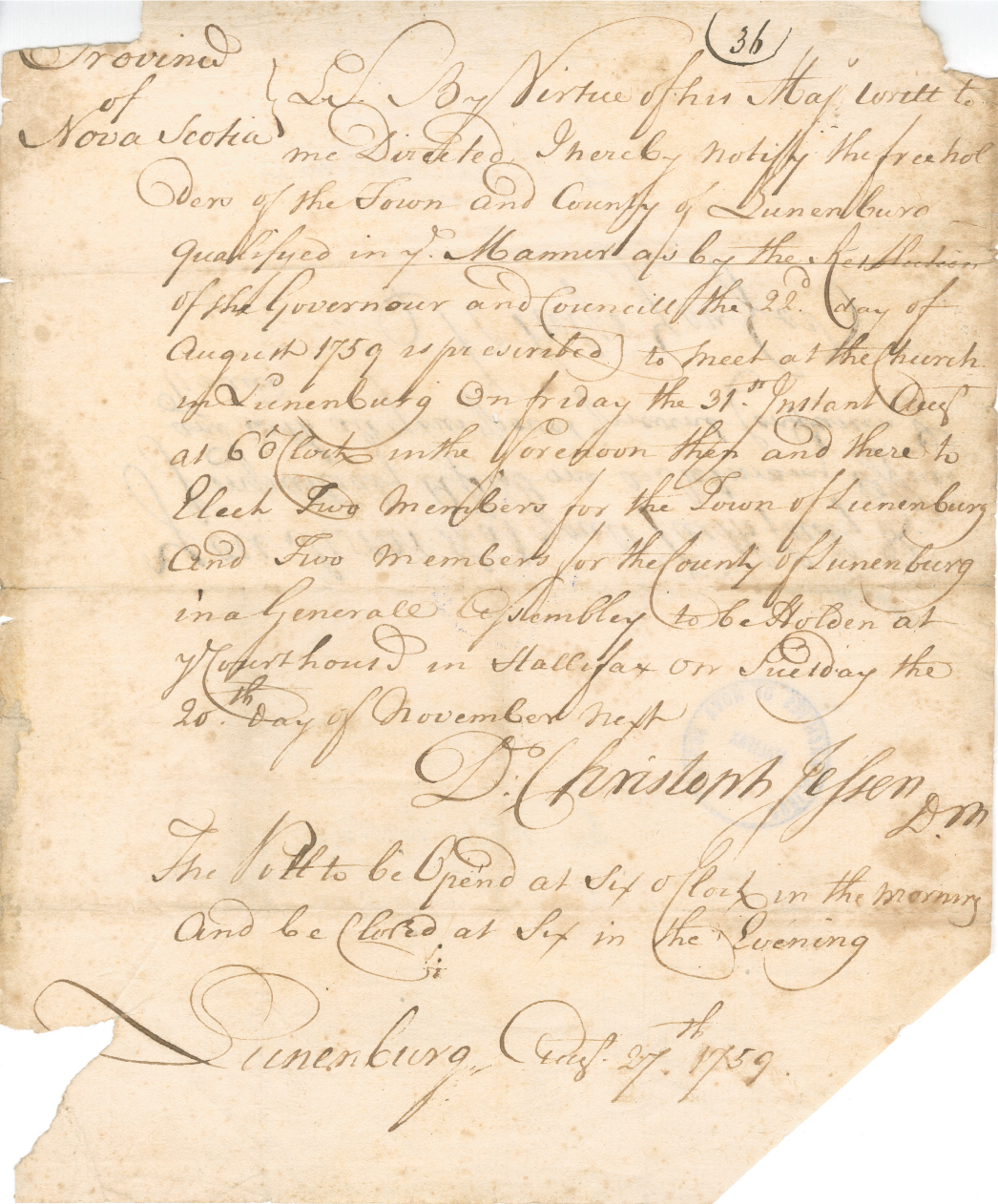 D. Christopher Jessen, Deputy Provost Marshall, to Freeholders of Lunenburg Township and County - election writ for the second assembly, 27 August 1759, from Nova Scotia Archives and Records Management. Commissioner of Public Records collection – Records relating to the early history of Lunenburg, 1761-1778